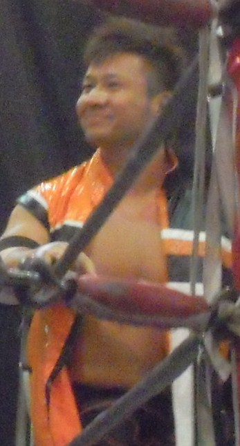 Japanese professional wrestler, Satoshi Kojima. Nov 20 2011 NJPW Tatebayashi.